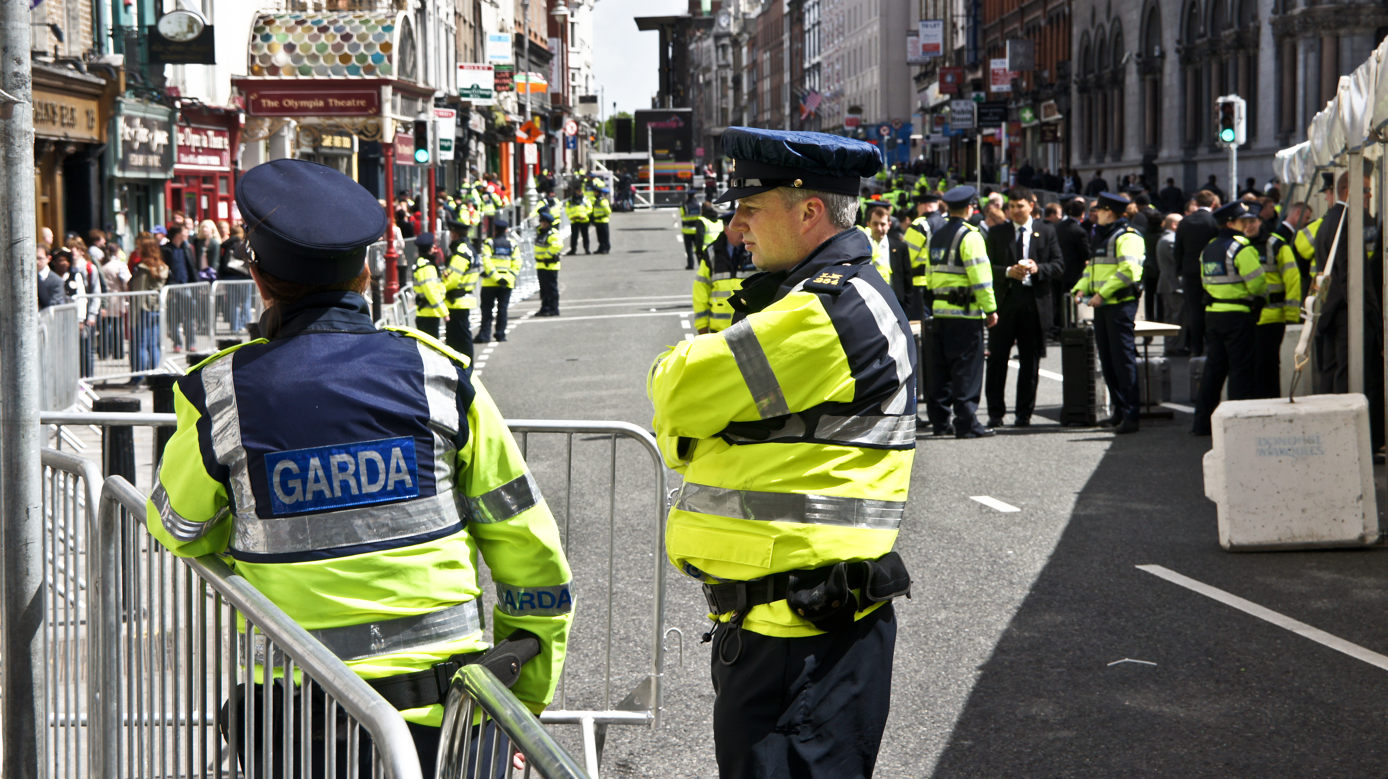 Garda officers man roadblock in Dublin, Ireland as American president Barack Obama visits the country.